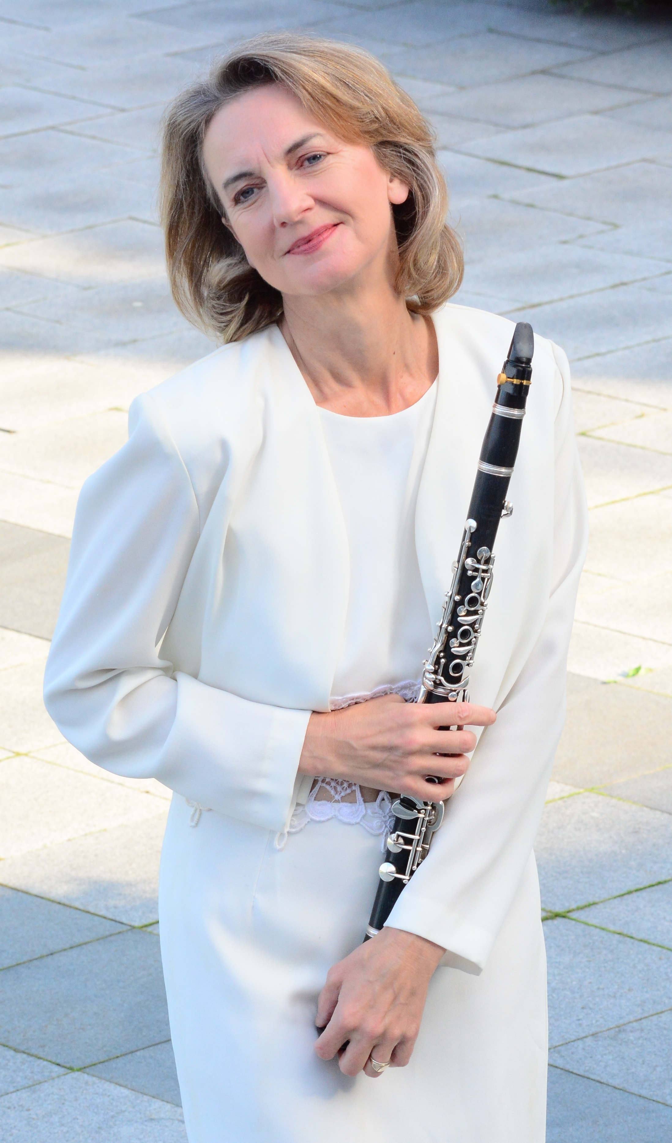 Photo Sabine Meyer